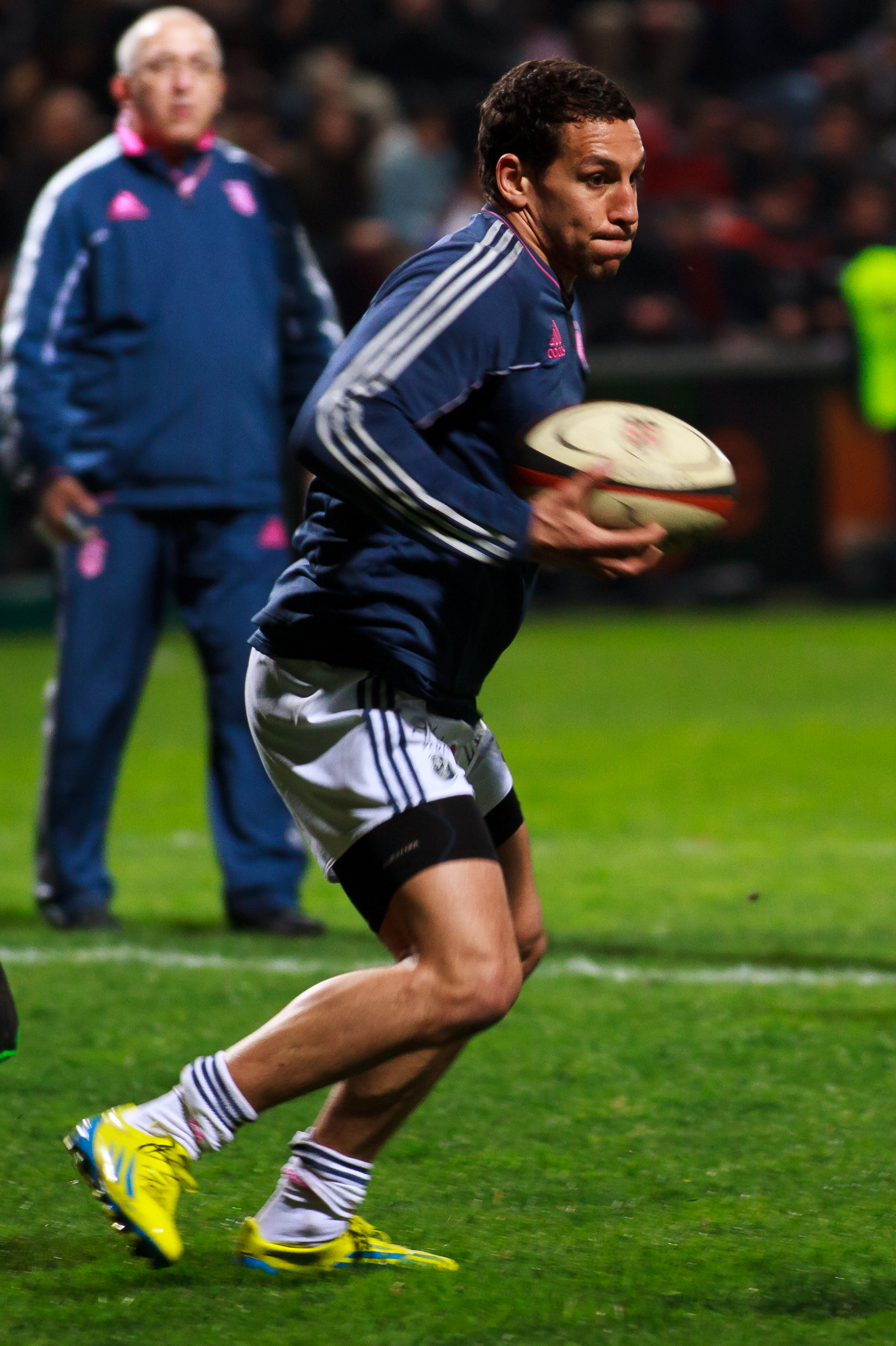 Julien Arias, warmu-up session of Stade toulousain vs Stade français Paris, March 24th, 2012